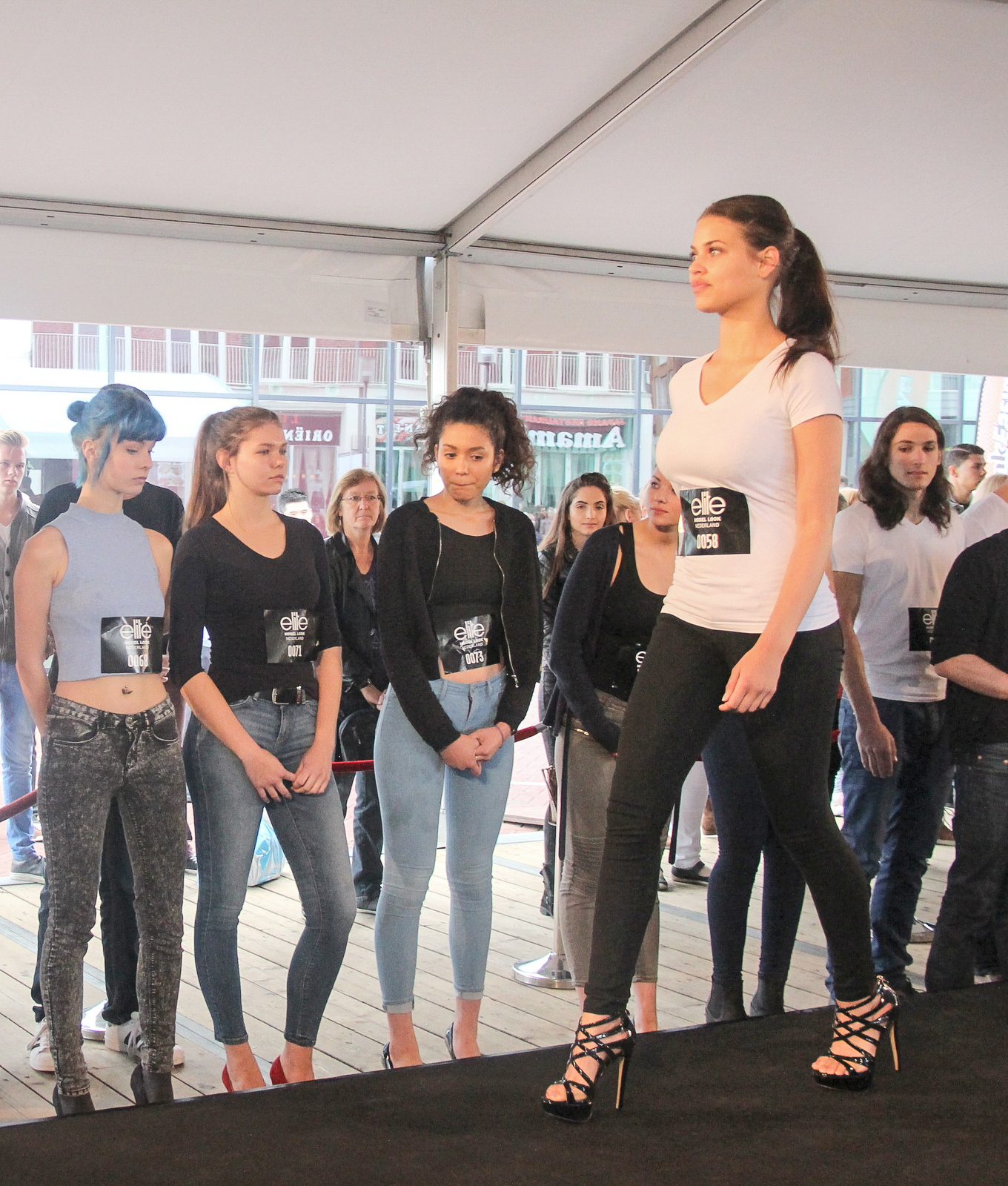 Walk catwalk elite model contest Spijkenisse